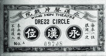 Canton Wing Hon Theatre ticket.